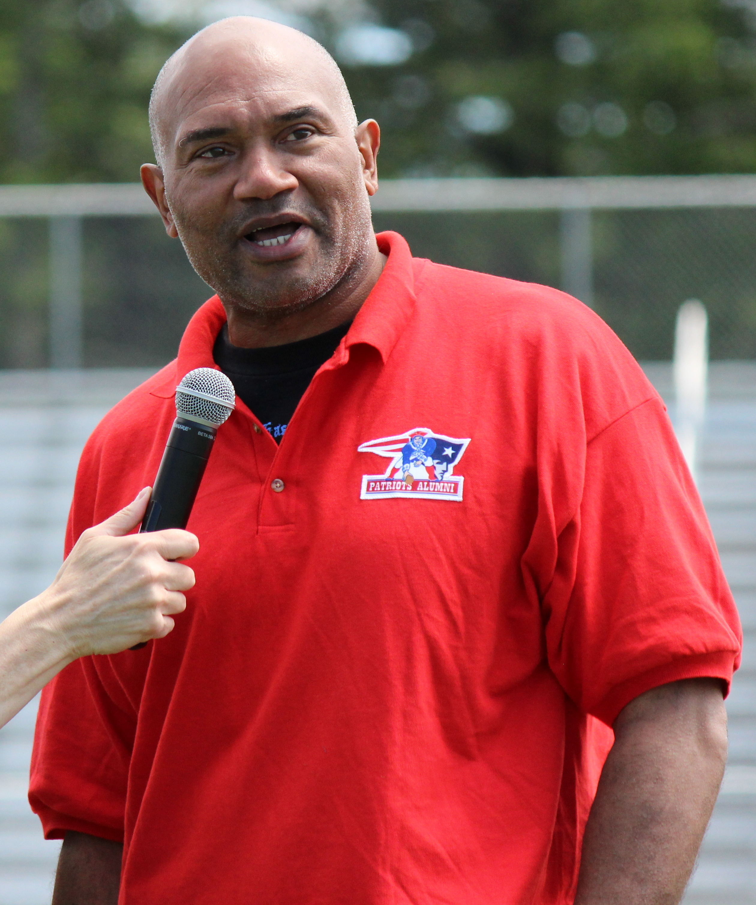 Chuck Wilson interview Garin Veris in Exeter, New Hampshire in 2015.